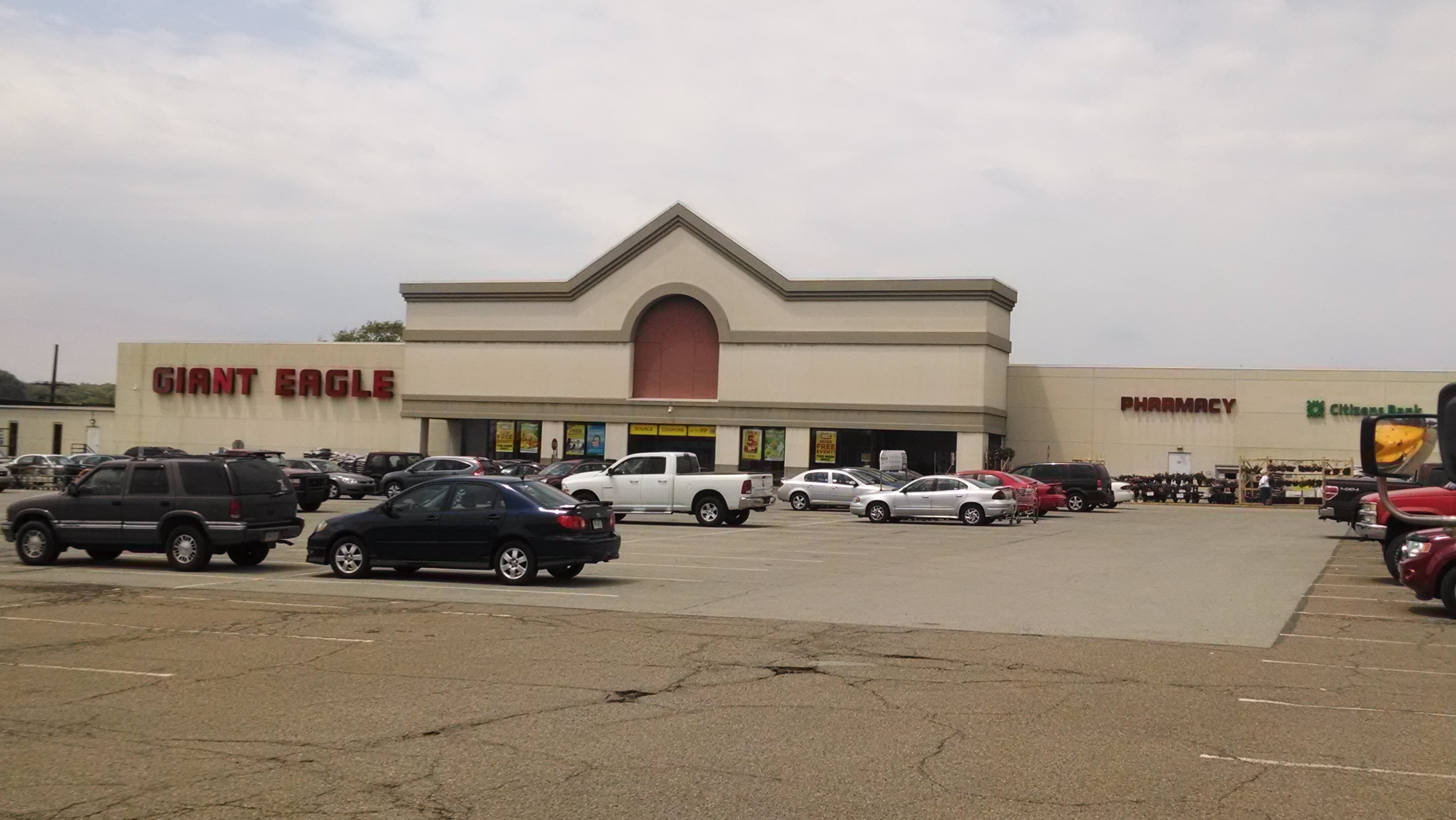 Front of the Giant Eagle store at the Northern Lights Shopping Center in Economy, Pennsylvania, United States.